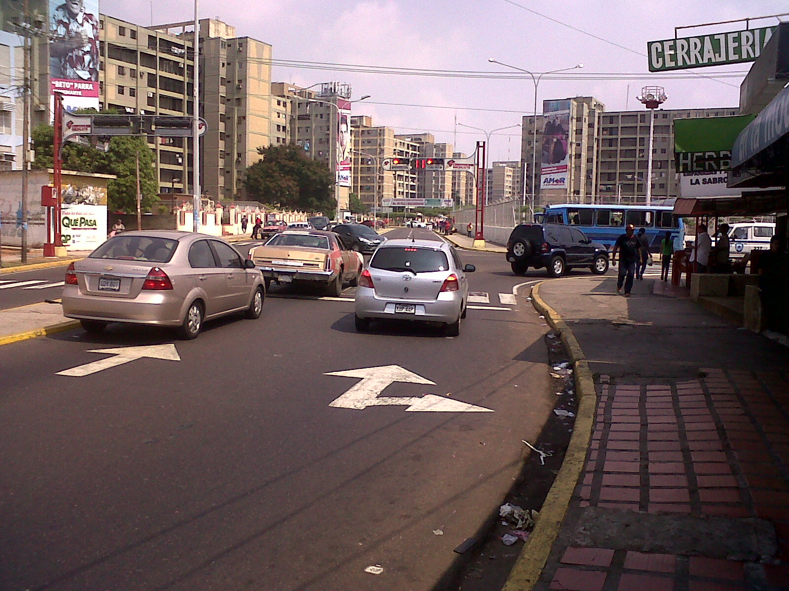 avenue